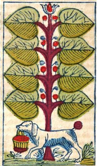 The Eight of Leaves from a Feine Schwerterkarte pack dated c. 1820s from an illustration in: Rümpler, Susanna (1828) Vier Farben, das heißt die deutschen Spielkarten in ihrer symbolischen Bedeutung beschrieben und erklärt. Taubert’schen Buchhandlung, Leipzig.